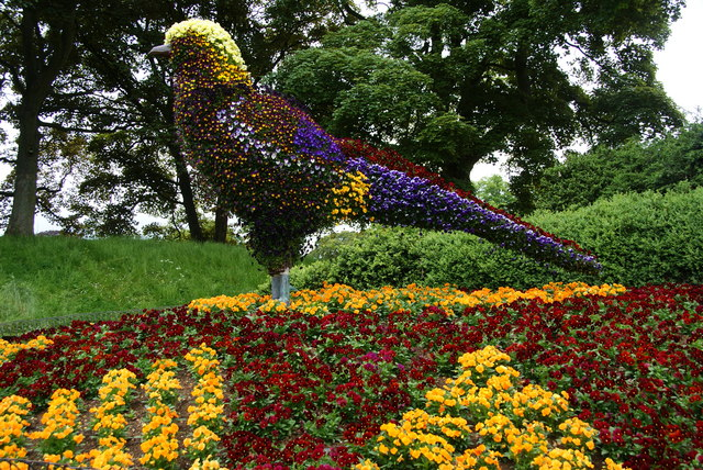 A floral bird This is on the way to the aviary at Waddesdon Manor.